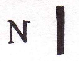 porcelain marks Nathusius factory Althaldensleben